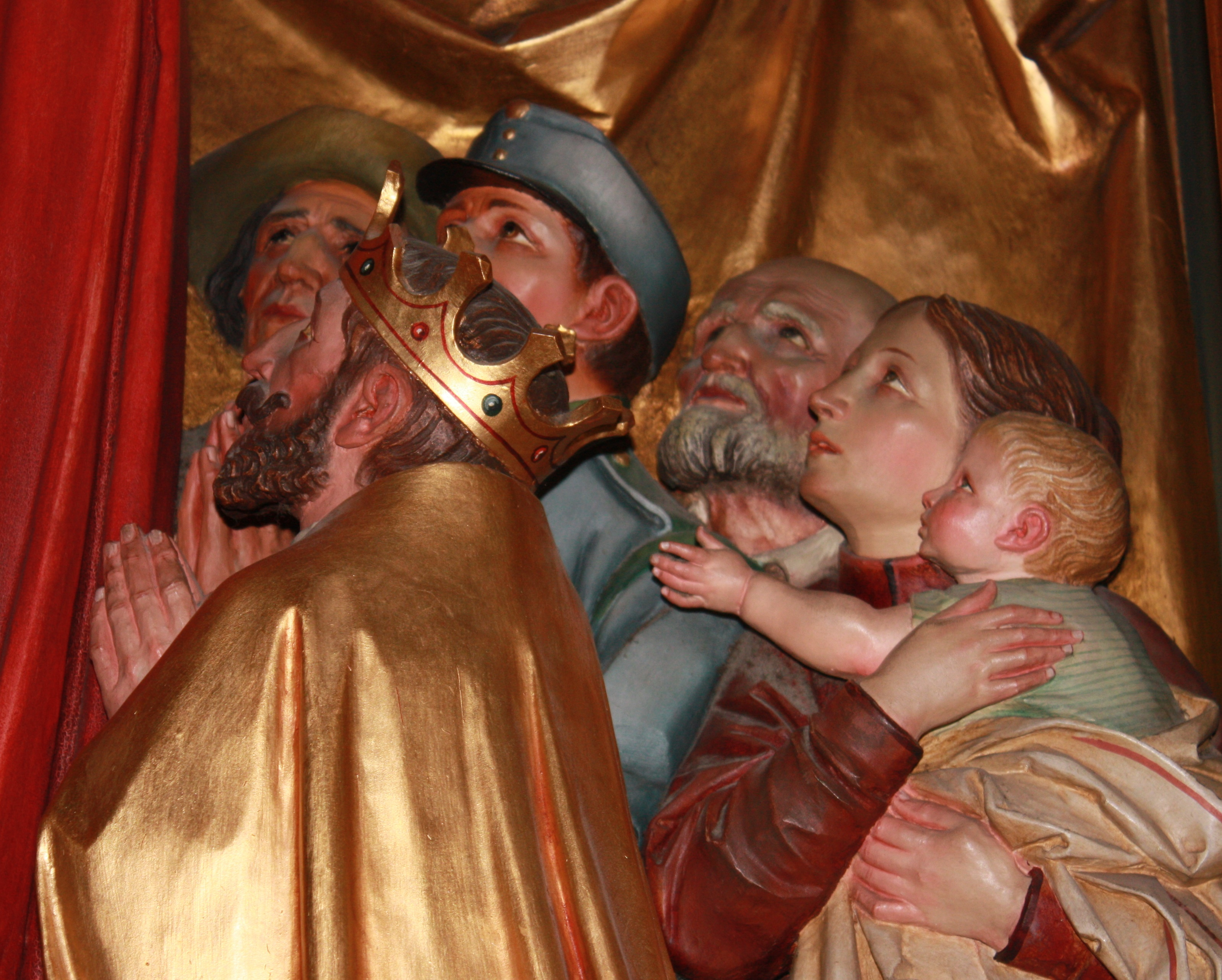 Parish church Saint Vinzenz - Marian altar - detail Locality: Heiligenblut Community:Heiligenblut